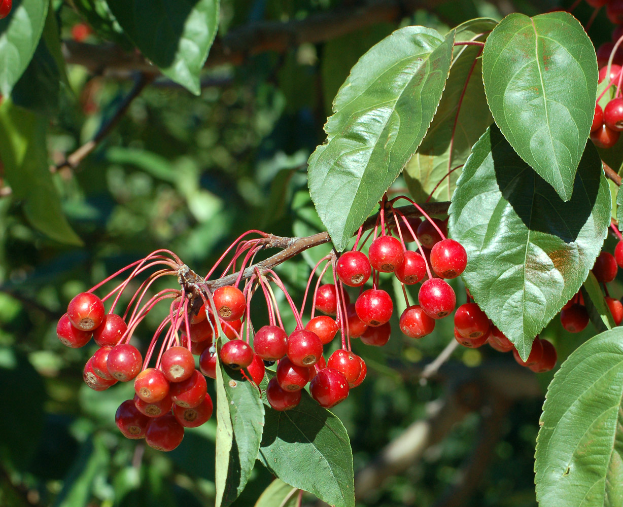 Attribution: Photo by John Severns A cluster of ripe crab apple fruits, taken at the Lauritzen Botanical Gardens in Omaha. Severnjc 00:01, 15 October 2006 (UTC)